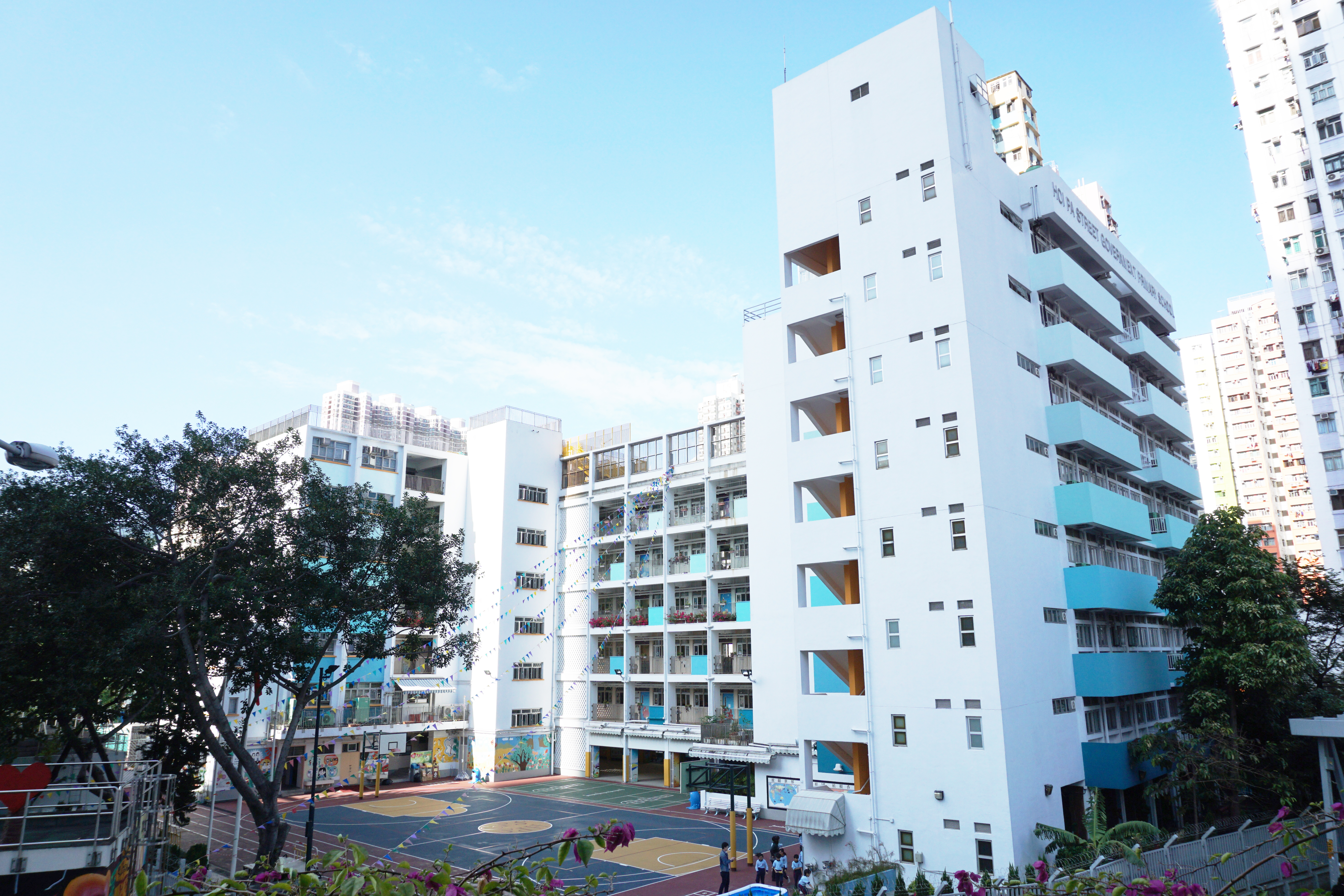 Hoi Pa Street Government Primary School in Tsuen Wan, Hong Kong.